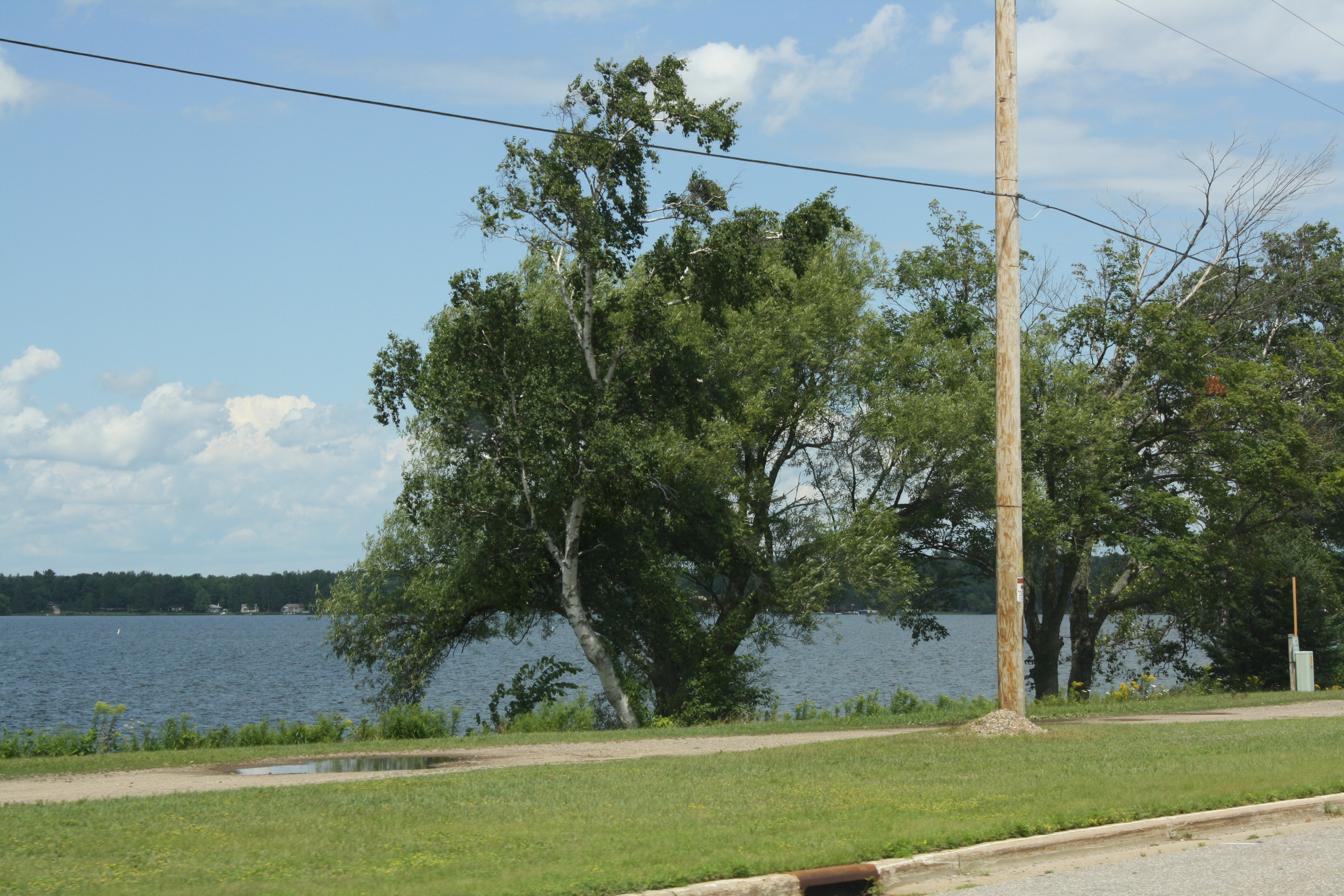 Looking west at Pelican Lake (Oneida County, Wisconsin) on U.S. Route 45.